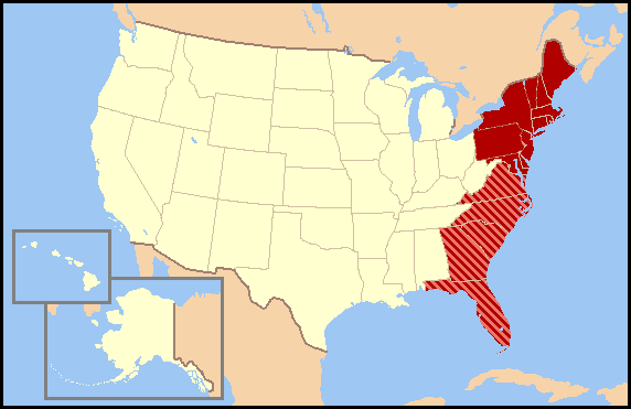 Map depicting the East Coast of the United States. Different graphics depict the coastal Northeastern United States; and coastal Southeastern United States.